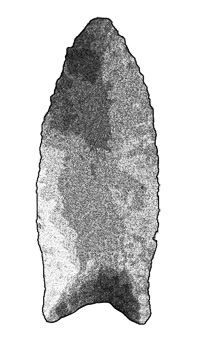 Graphic of a Golondrina point, based on a photograph of a Golondrina point found in Randolph County, Arkansas, seen at